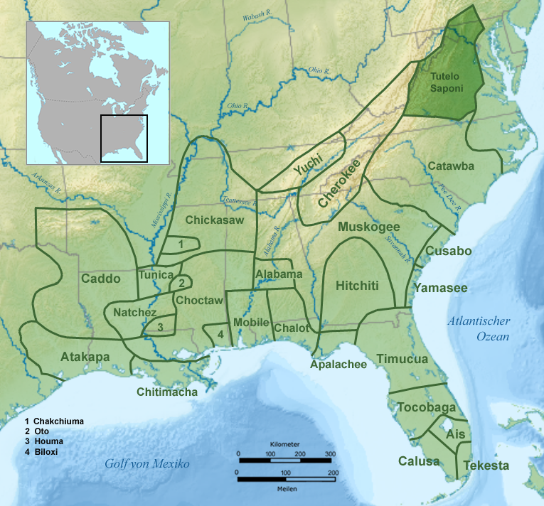 Tribal territory of Tutelo and Saponi, probably before 1600